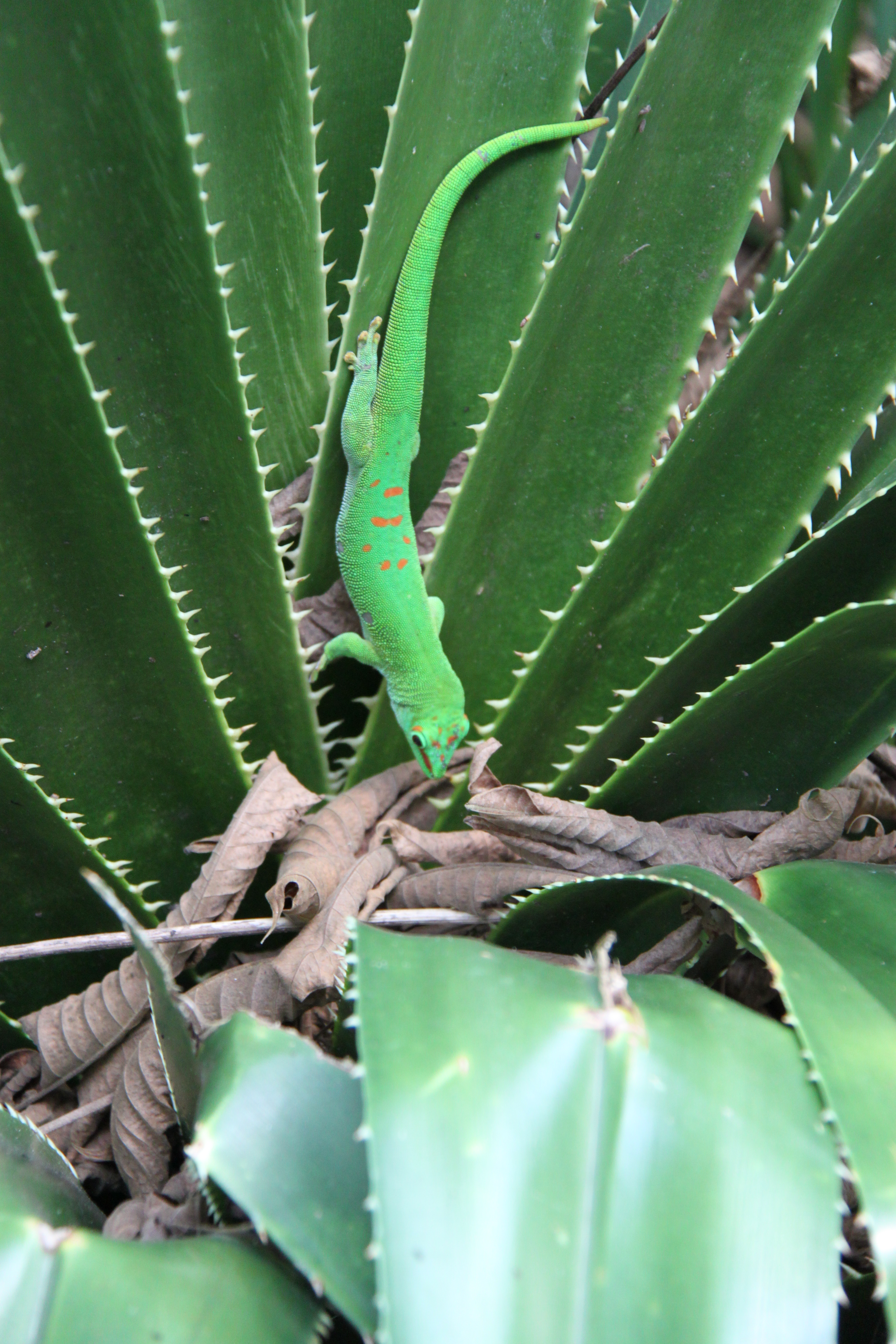 Madagascar day gecko at Zürich Zoo, Switzerland.